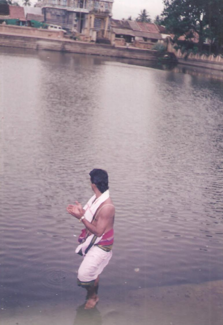 this is a place near kumbakonam